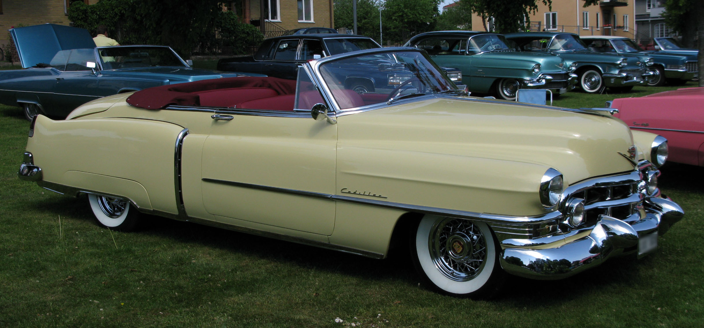 1952 Cadillac 6267 Series 62 convertible